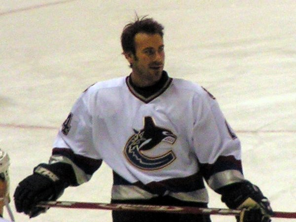 Geoff Sanderson while warmup in San Jose